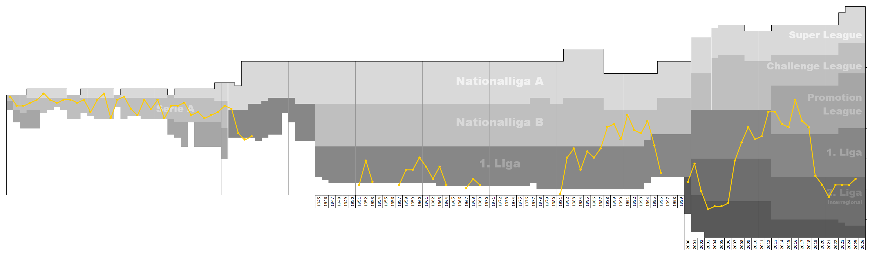 Chart of end-season table positions for BSC Old Boys in the Swiss football league system. Data source: RSSSF, , al-la.ch